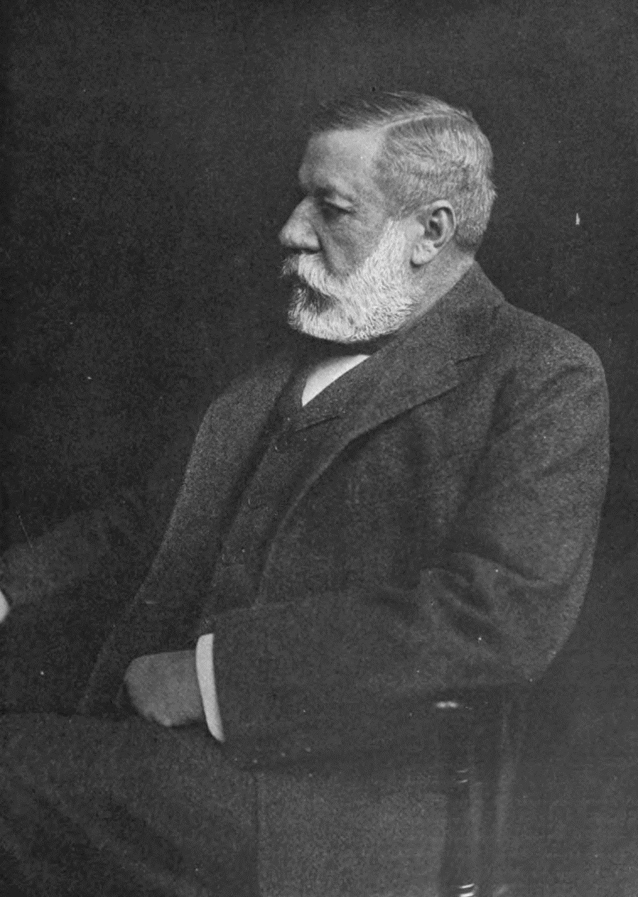 Charles Sprague Sargent